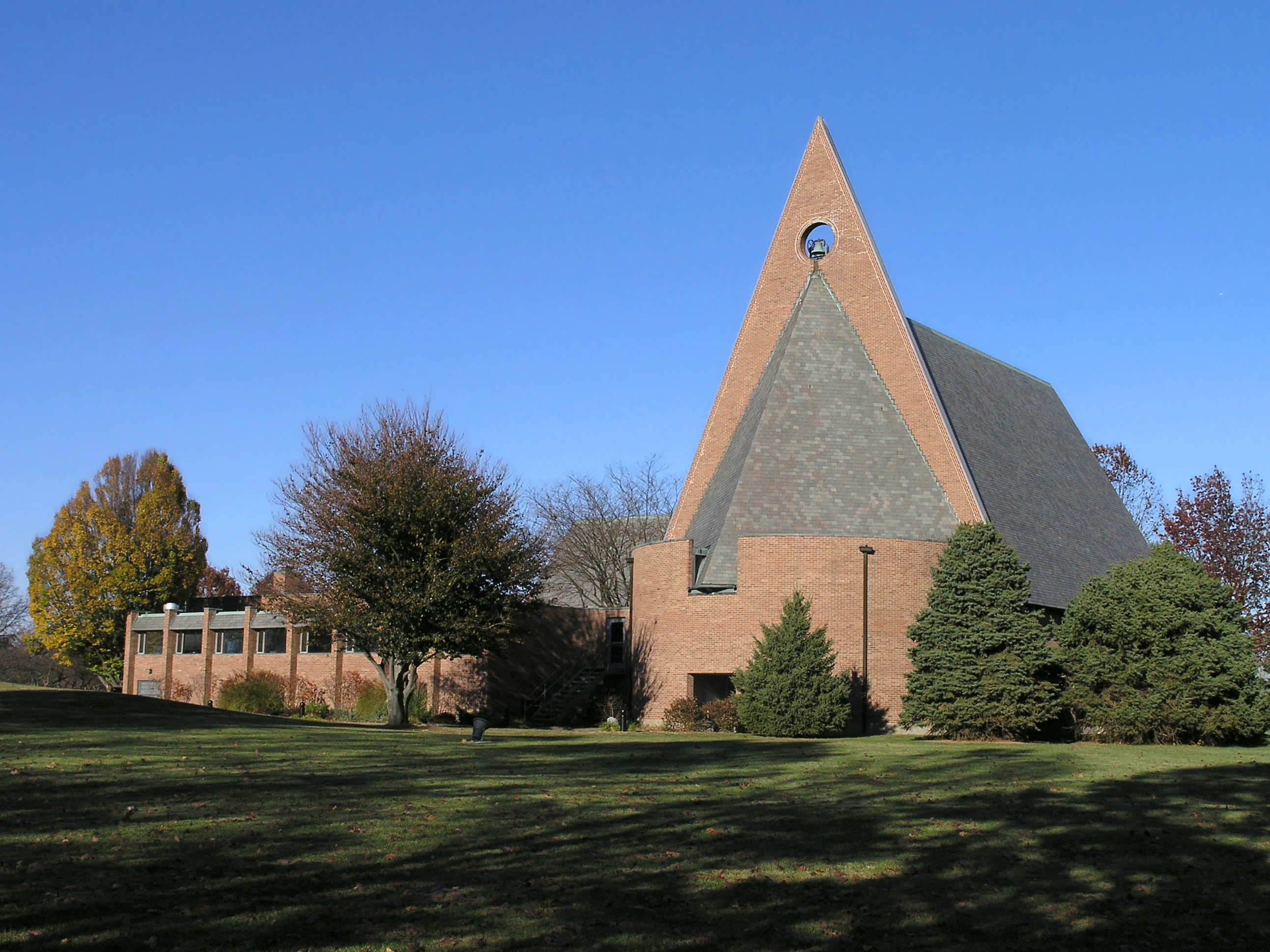 Taken by Greg5030 November 12, 2005. Photo by Greg Hume